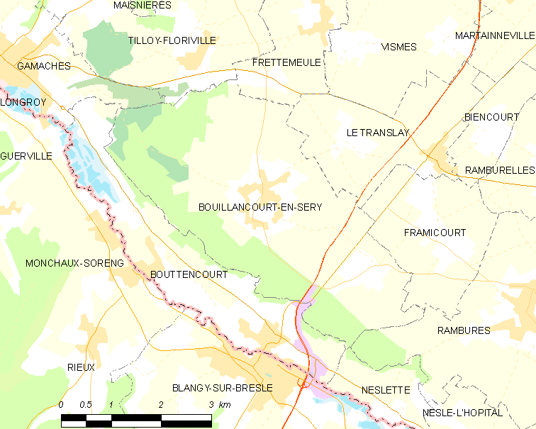 Map of French municipality Bouillancourt-en-Séry